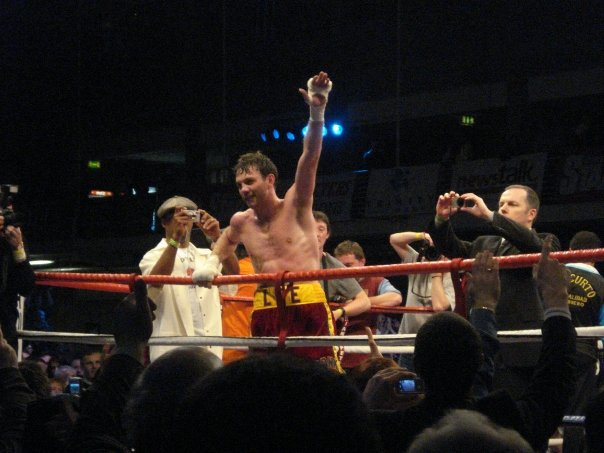 Andy Lee